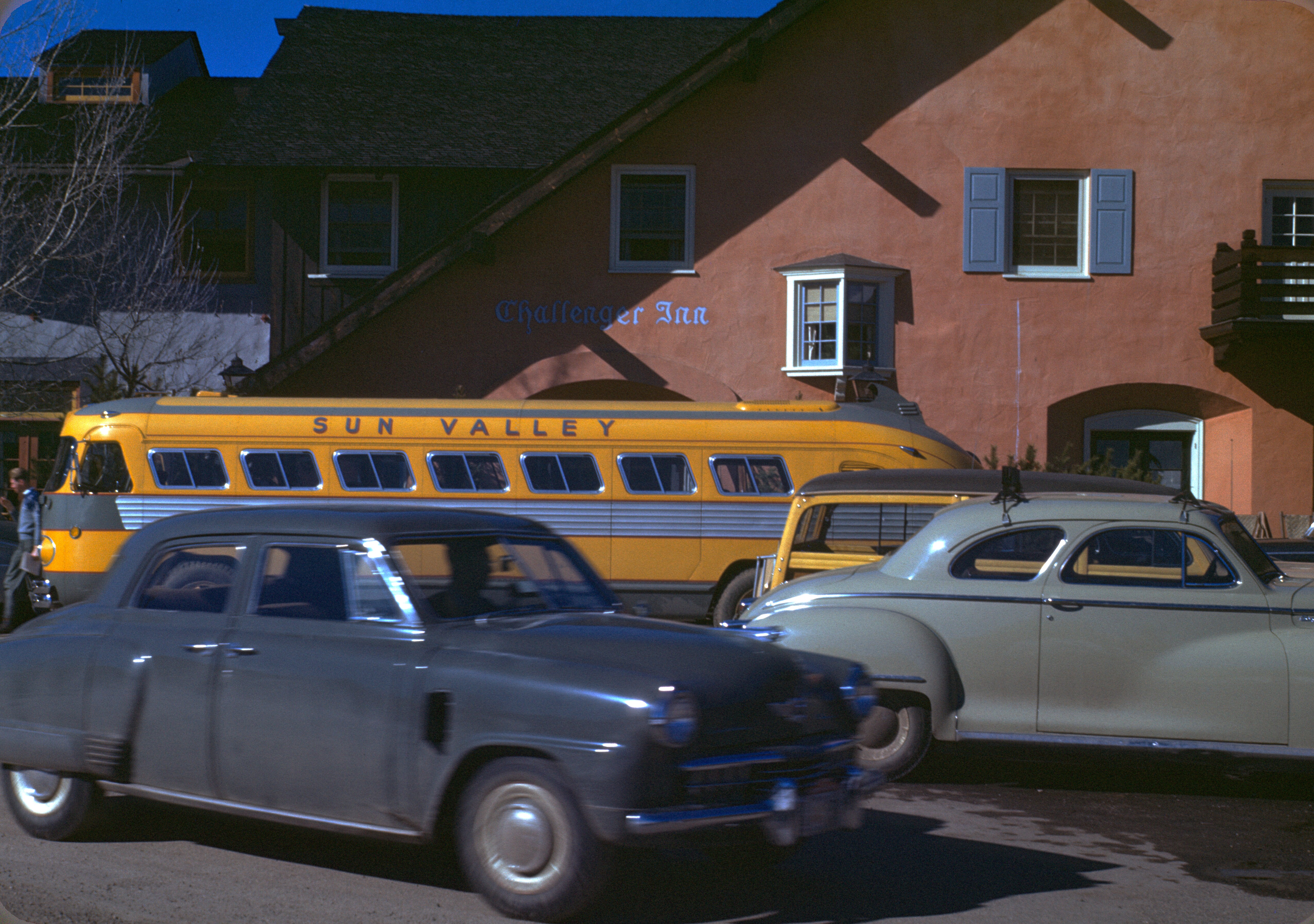 Other images by this contributor - User:Sba2 Use this image as needed, but for uses other than personal, please credit as "Photo by Chalmers Butterfield".